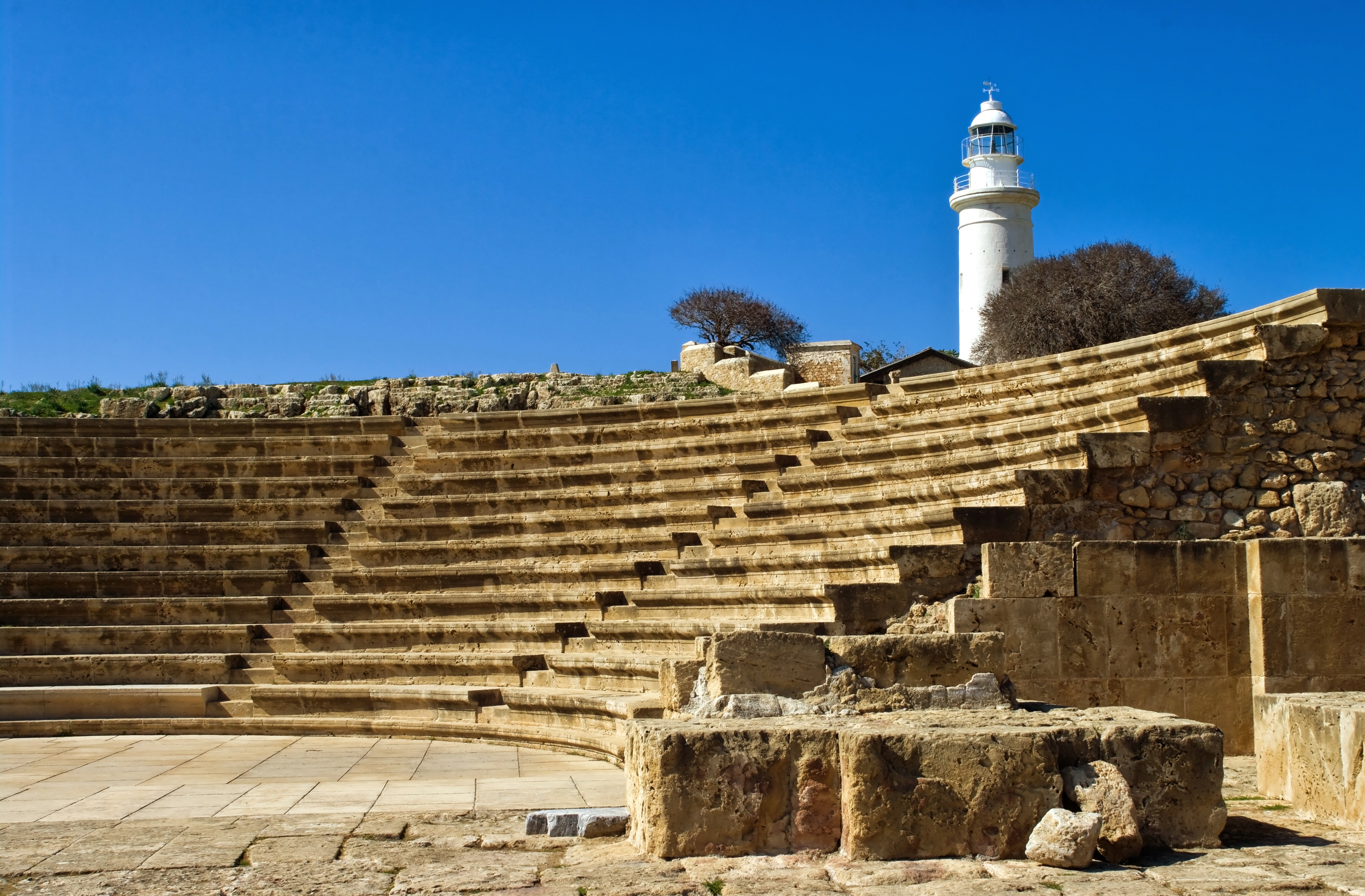 Archaeological Park in Paphos, Cyprus.